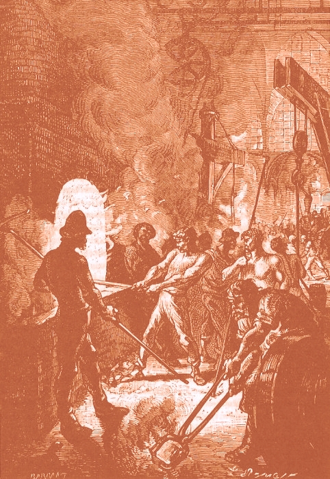 An illustration from Jules Verne's novel "The Begum's Fortune" (also published as "The Begum's Millions").